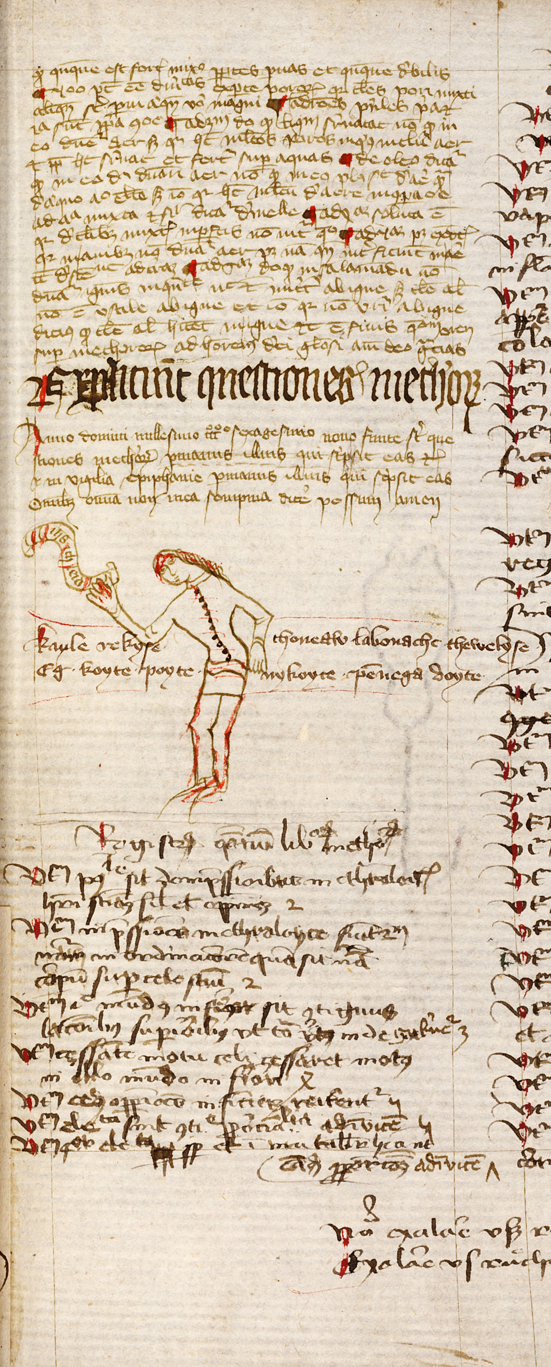 The epigraph of Basel - the oldest known inscription in the Prussian language and any Baltic language. Discovered in 1973 in a library in Basel, Switzerland.